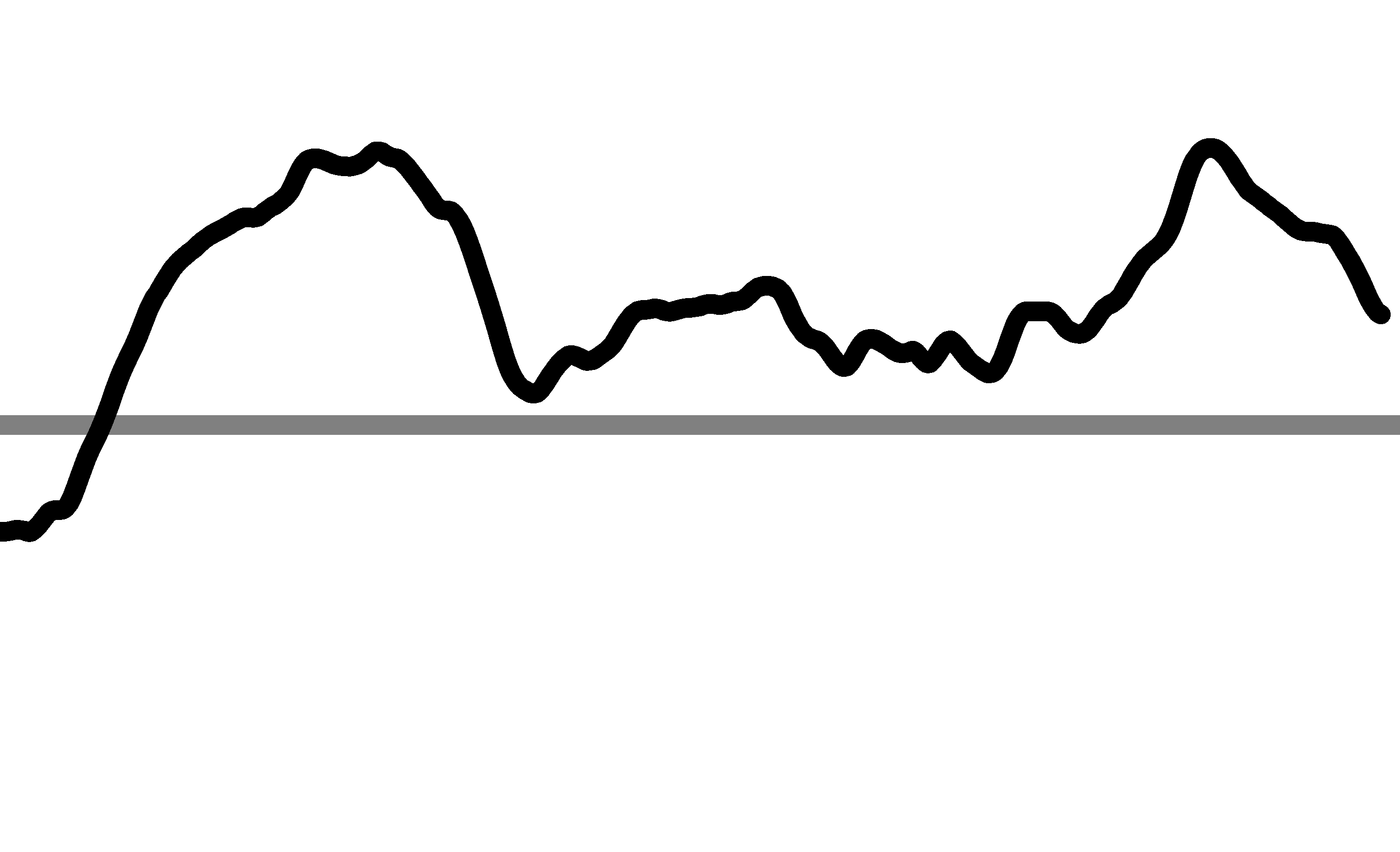 One-dimensional Perlin noise function made by adding up the five images: Image:PerlinNoiseStep1.gif (and ...Step2.gif , Step3, 4, 5.).